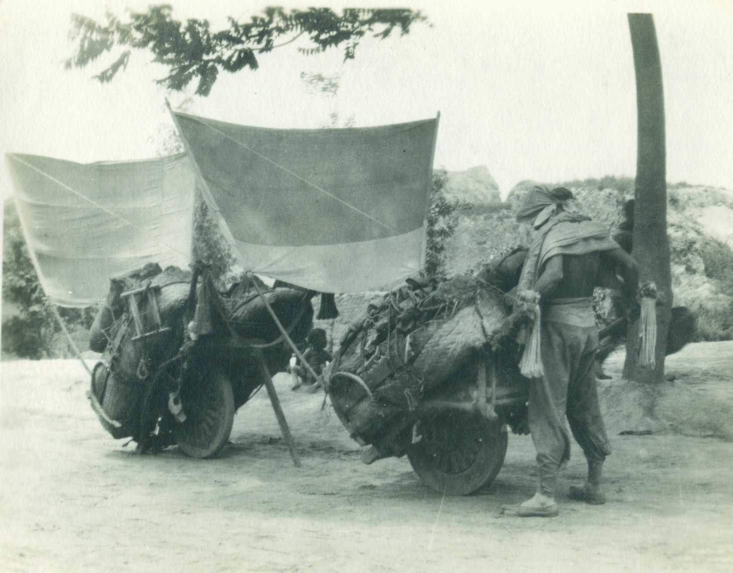 Wheelbarrows with sails, near Xi'an, China, early 20th century.